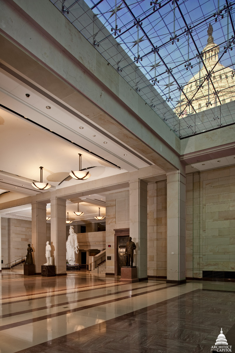 View through the north skylight facing west in Emancipation Hall, Capitol Visitor Center. This official Architect of the Capitol photograph is being made available for educational, scholarly, news or personal purposes (not advertising or any other commercial use). When any of these images is used the photographic credit line should read “Architect of the Capitol.” These images may not be used in any way that would imply endorsement by the Architect of the Capitol or the United States Congress of a product, service or point of view. For more information visit